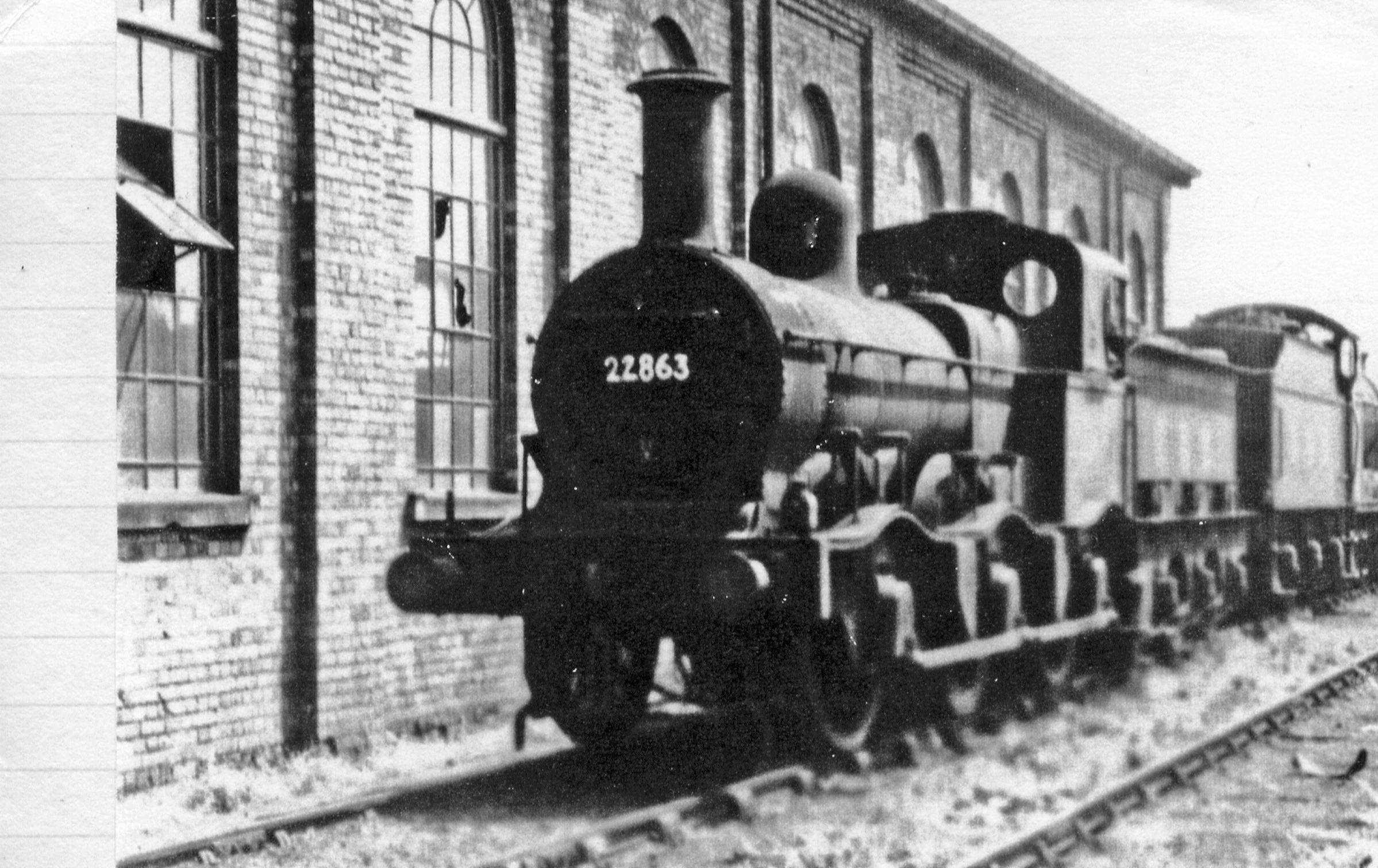 Midland Kirtley double-framed 0-6-0 at Bournville Shed, 1947View southward outside the Shed, on the west side of the Bristol - Gloucester - Birmingham - Derby ex-Midland main line. No. 22863 was one of the last 10 left in 1945 of the original 316 Kirtley class 700 of 1868, being withdrawn in 1/49.